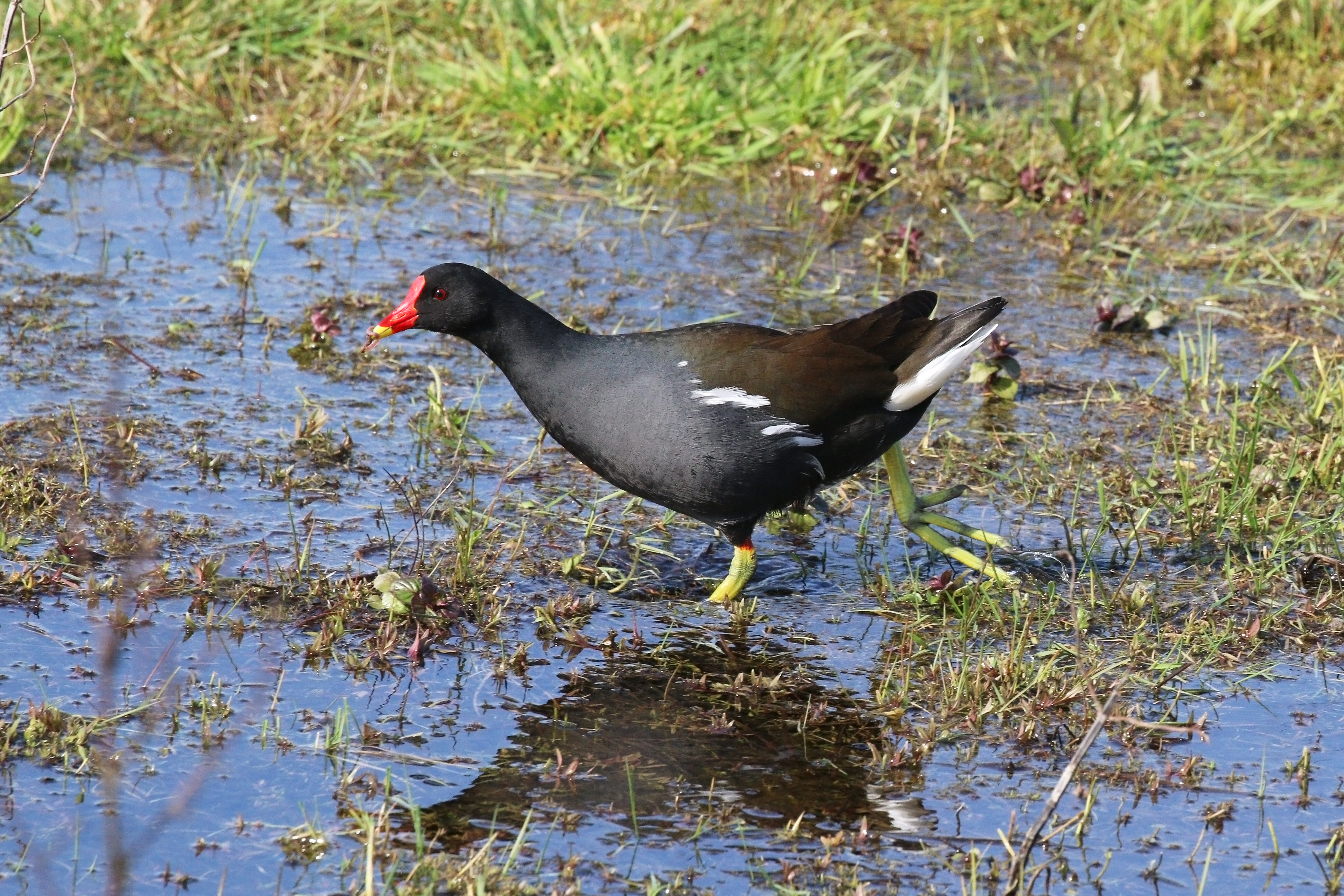 Common moorhen (Gallinula chloropus) with worm, Otmoor RSPB Reserve, Oxfordshire